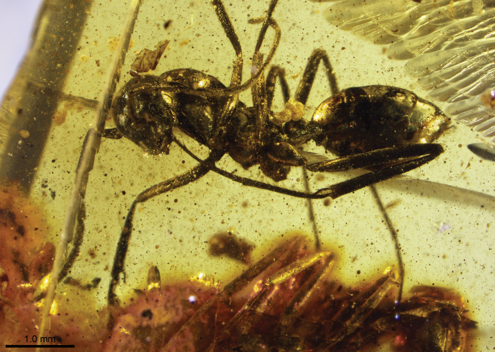 Figure 5. Gerontoformica robustus (syn. Sphecomyrmodes robustus) holotype JZC Bu223A photomicrographs. A. Full lateral view of specimen.